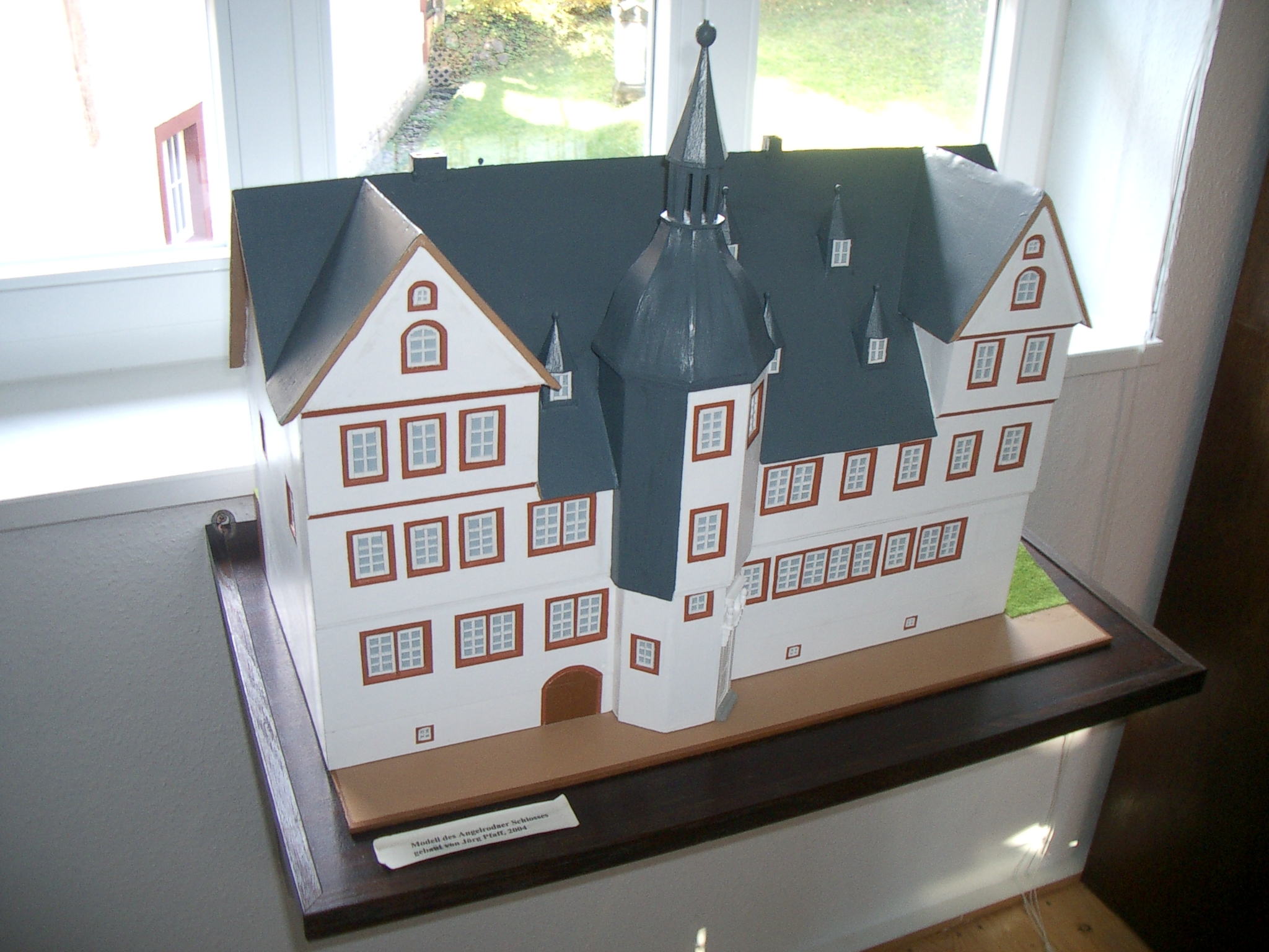 Former Castle of Angelroda (Thuringia)